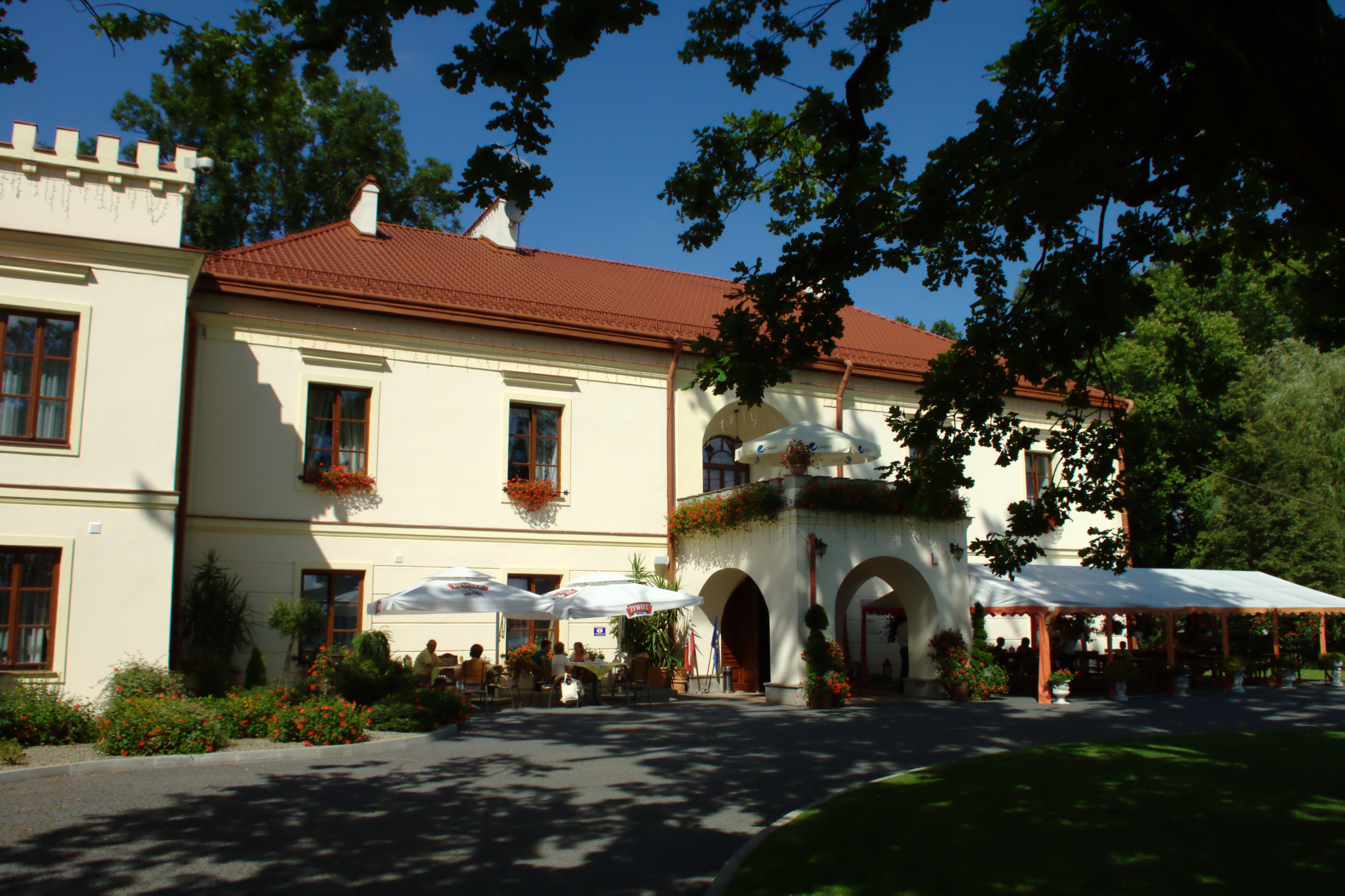 A mansion in Dubiecko, now a gourmet restaurant. Podkarpackie voivodeship, Poland